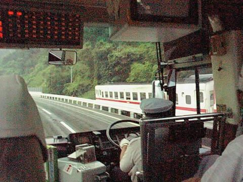 The train of Yamada Line seen from "106 Express bus" in the car.